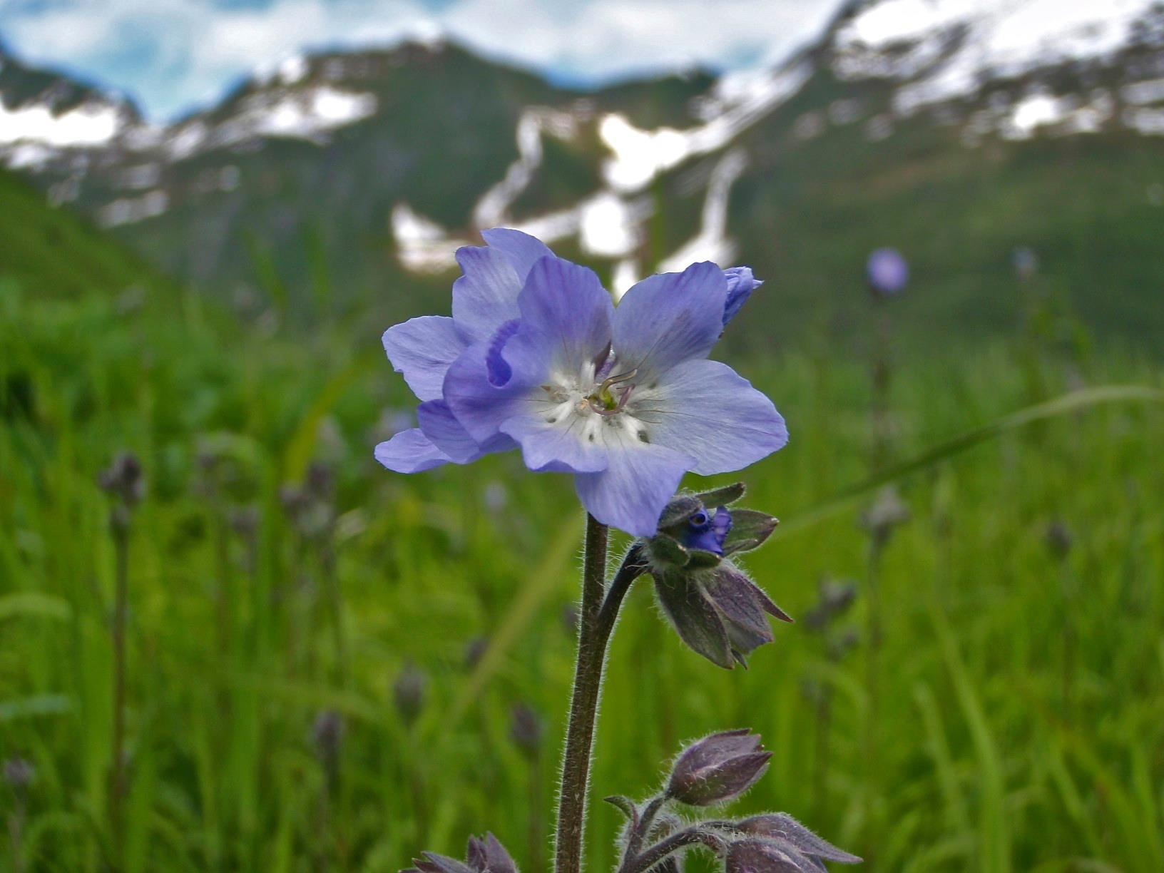 Kenai Fjords National Park